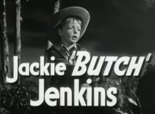 Cropped screenshot of Jackie 'Butch' Jenkins from the trailer for the film Boy's Ranch.